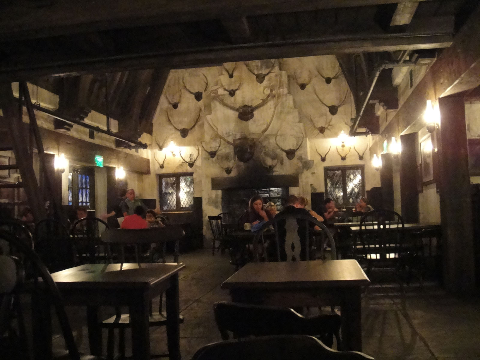 Wizarding World of Harry Potter - Three Broomsticks dining room